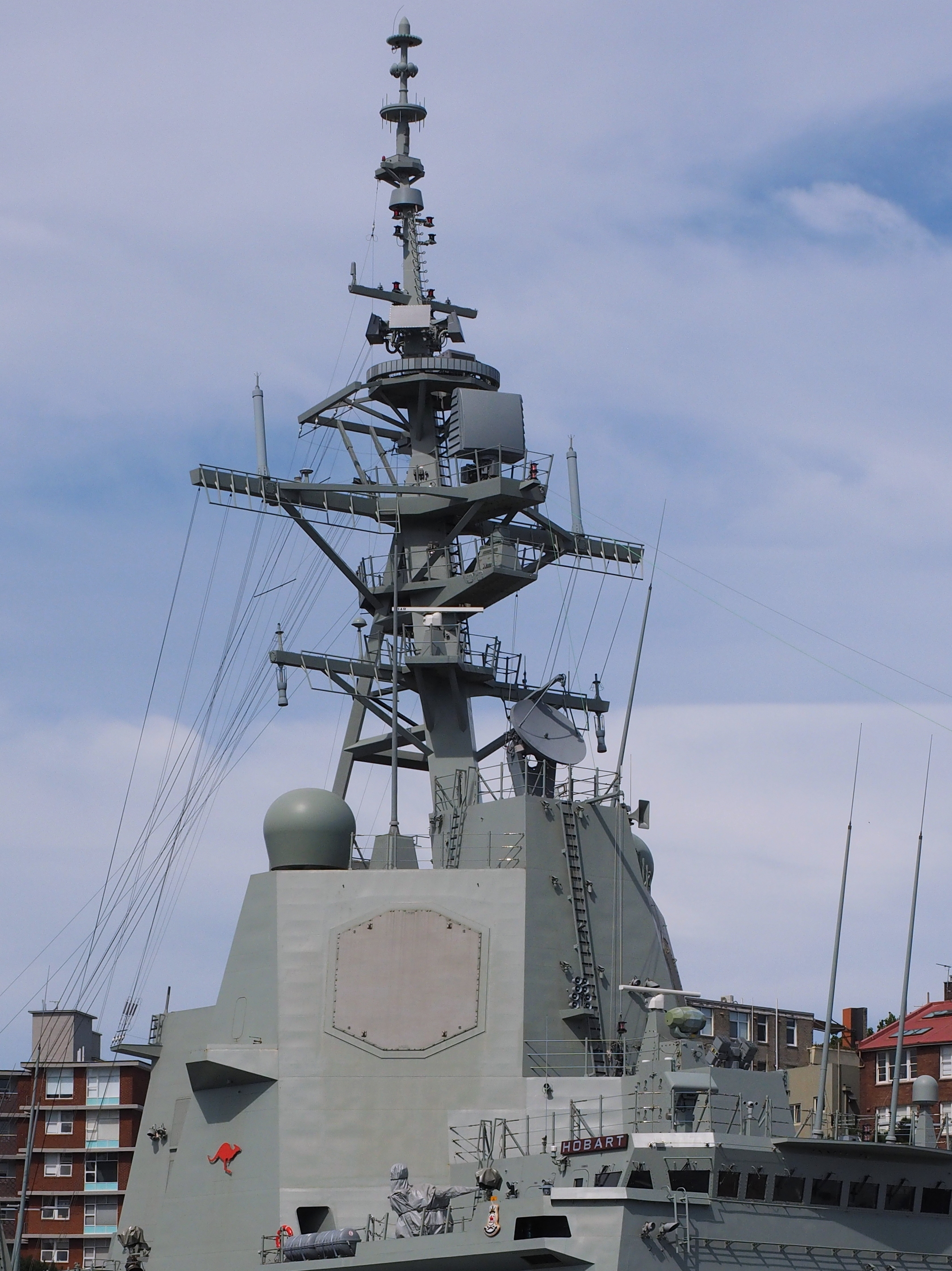 HMAS Hobart's upper superstructure and mast